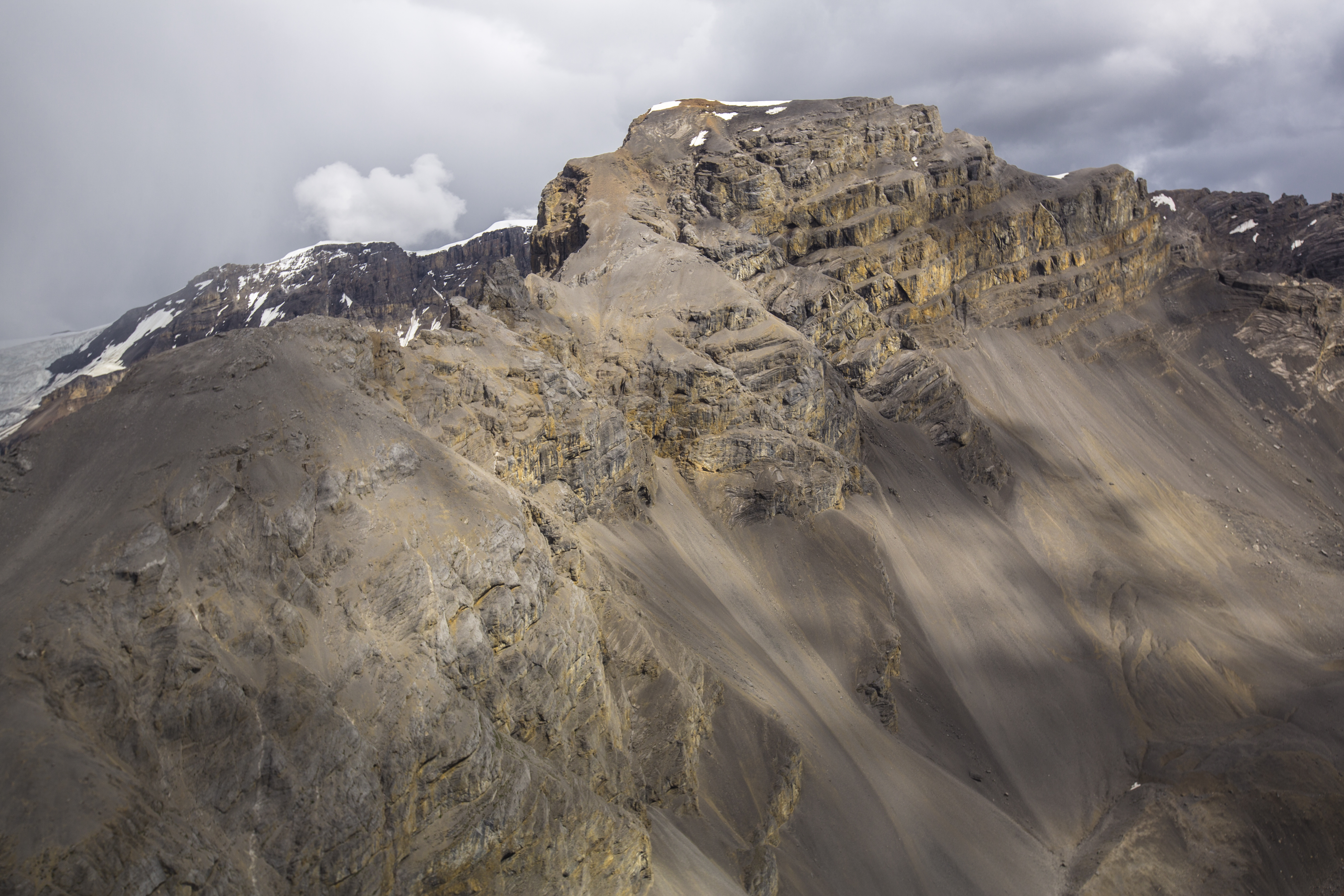 NPS / Jacob W. Frank Flight paths